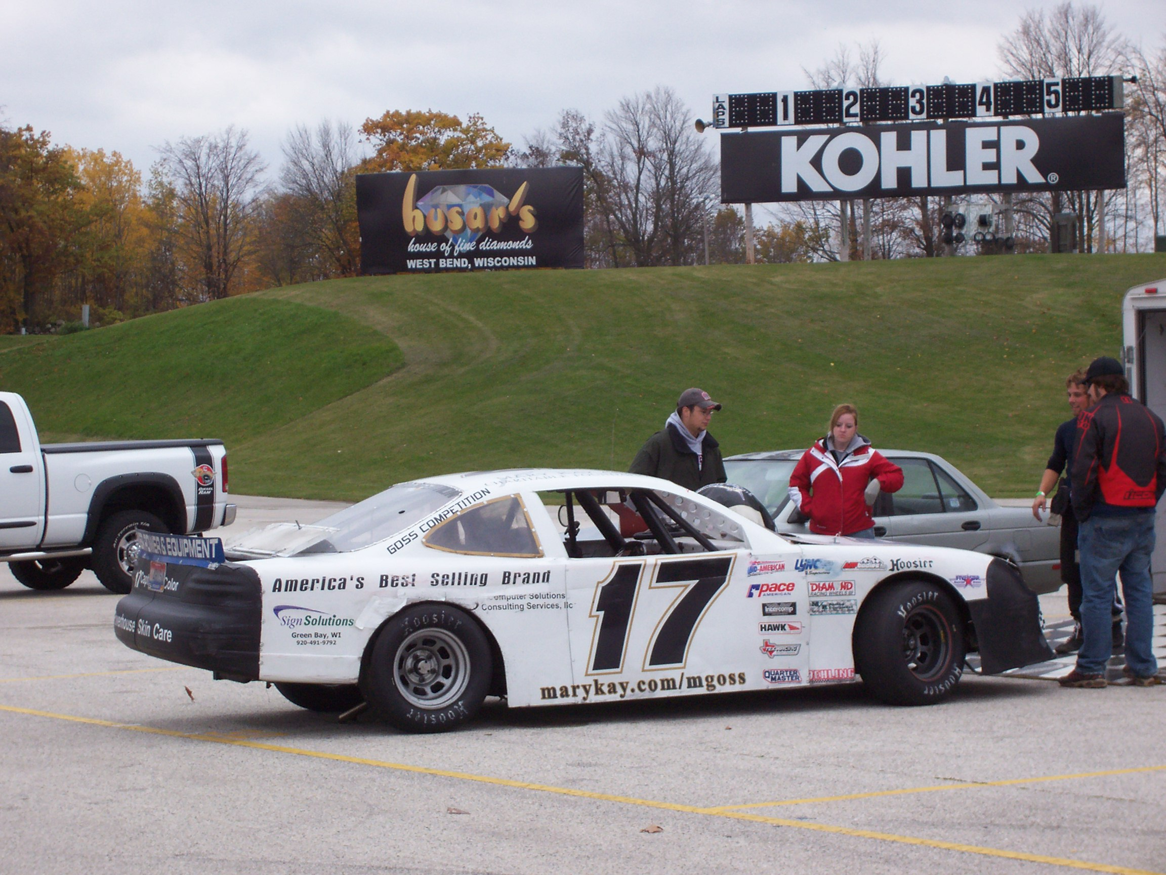 Lou Goss #17 Mid American stock car in the pits at Road America.